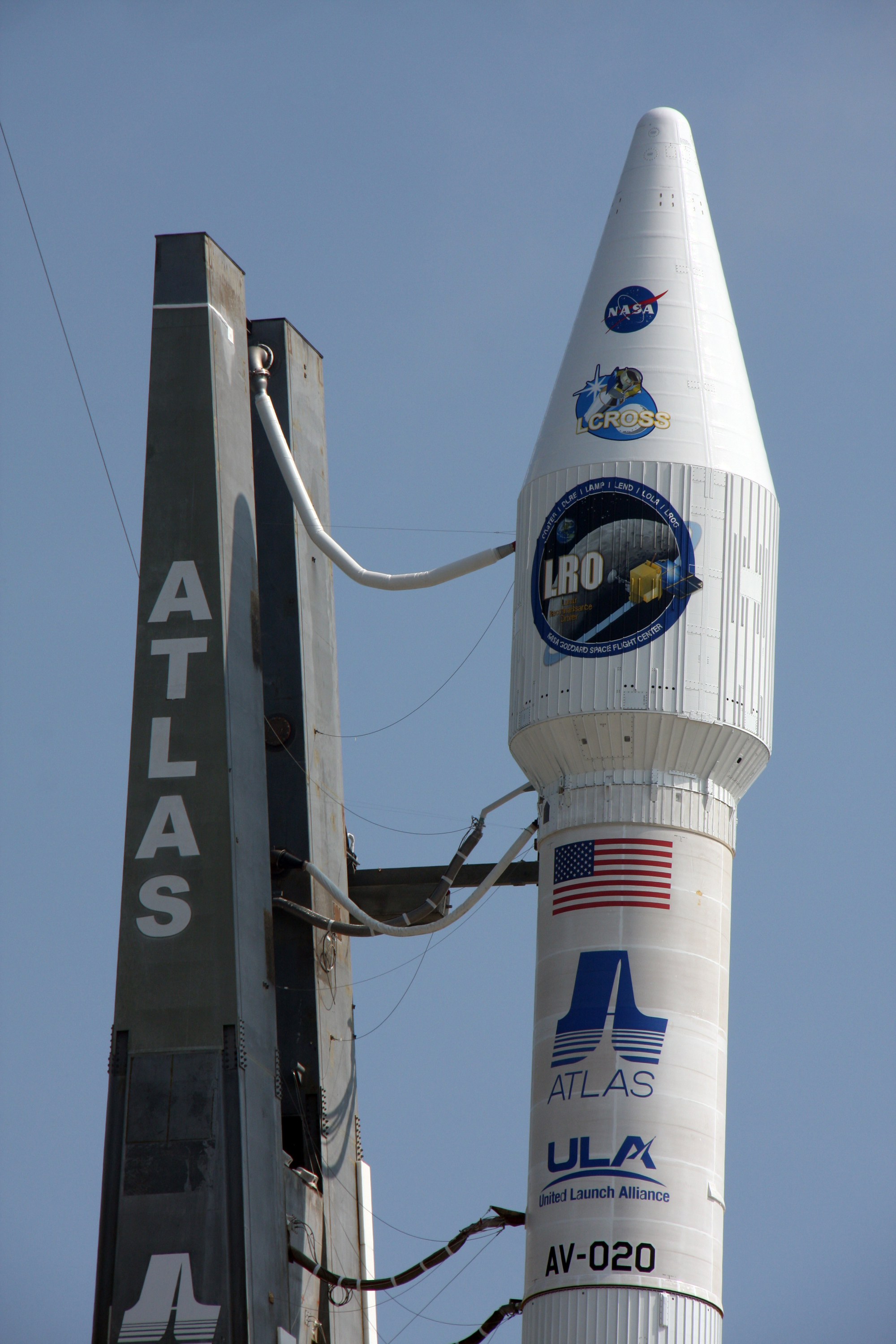 CAPE CANAVERAL, Fla. – NASA's Lunar Reconnaissance Orbiter, or LRO, and NASA's Lunar Crater Observation and Sensing Satellite, known as LCROSS, stand ready for liftoff on an Atlas V/Centaur rocket from Launch Pad 41 at Cape Canaveral Air Force Station in Florida. LRO and LCROSS are the first missions in NASA's plan to return humans to the moon and begin establishing a lunar outpost by 2020. The LRO also includes seven instruments that will help NASA characterize the moon's surface: DIVINER, LAMP, LEND, LOLA , CRATER, Mini-RF and LROC. Launch is scheduled for 5:12 p.m. EDT June 18.